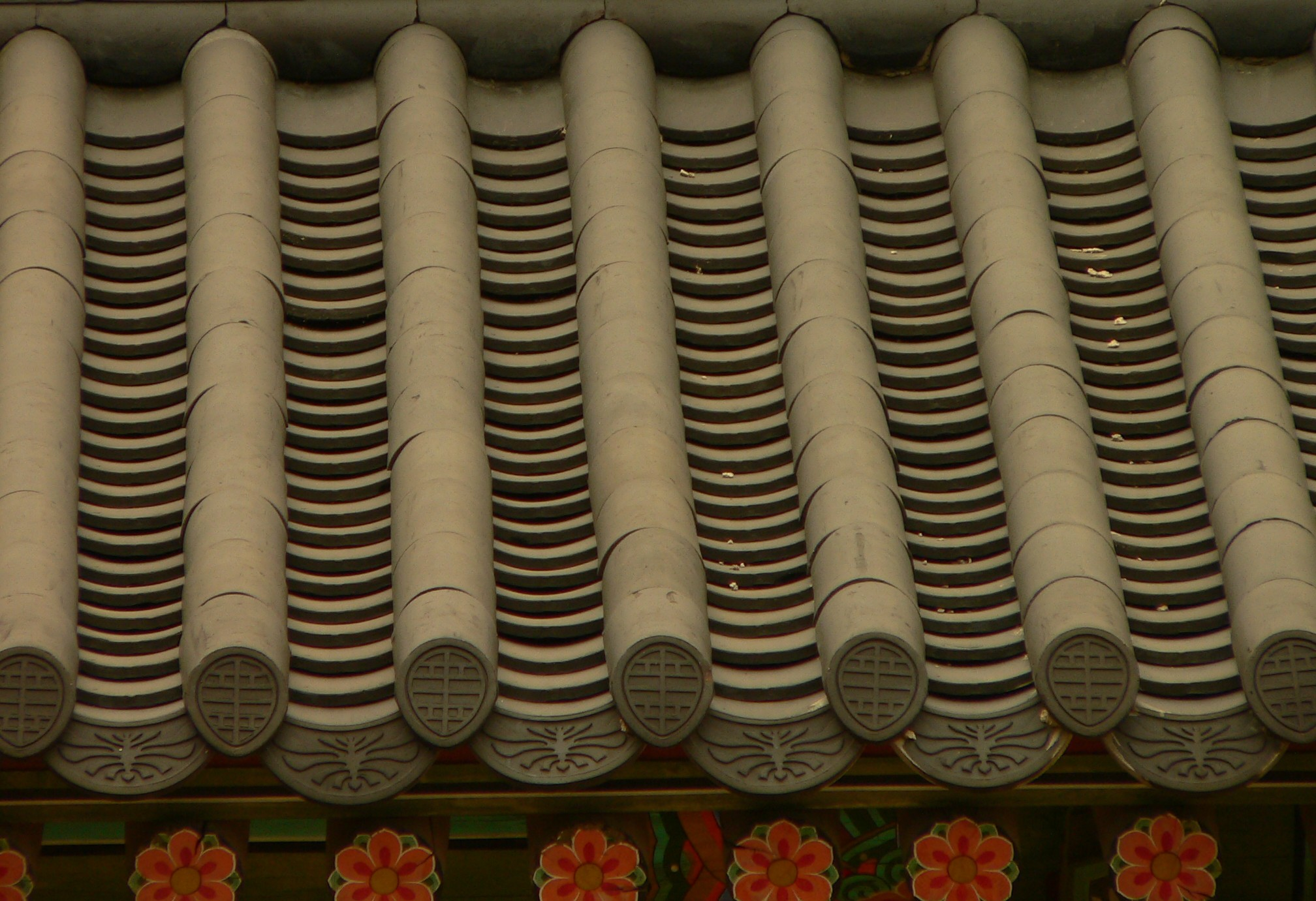 너와 (roof tiles) of Gyeongbokgung palace in Seoul